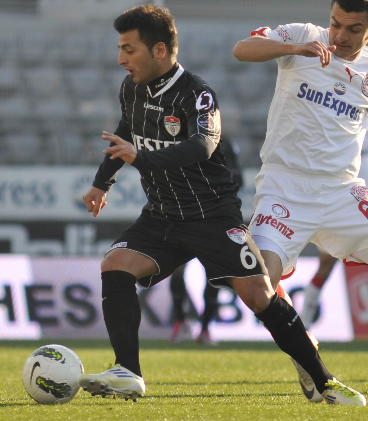 Photo : Koray Geçgel & Murat Özgen